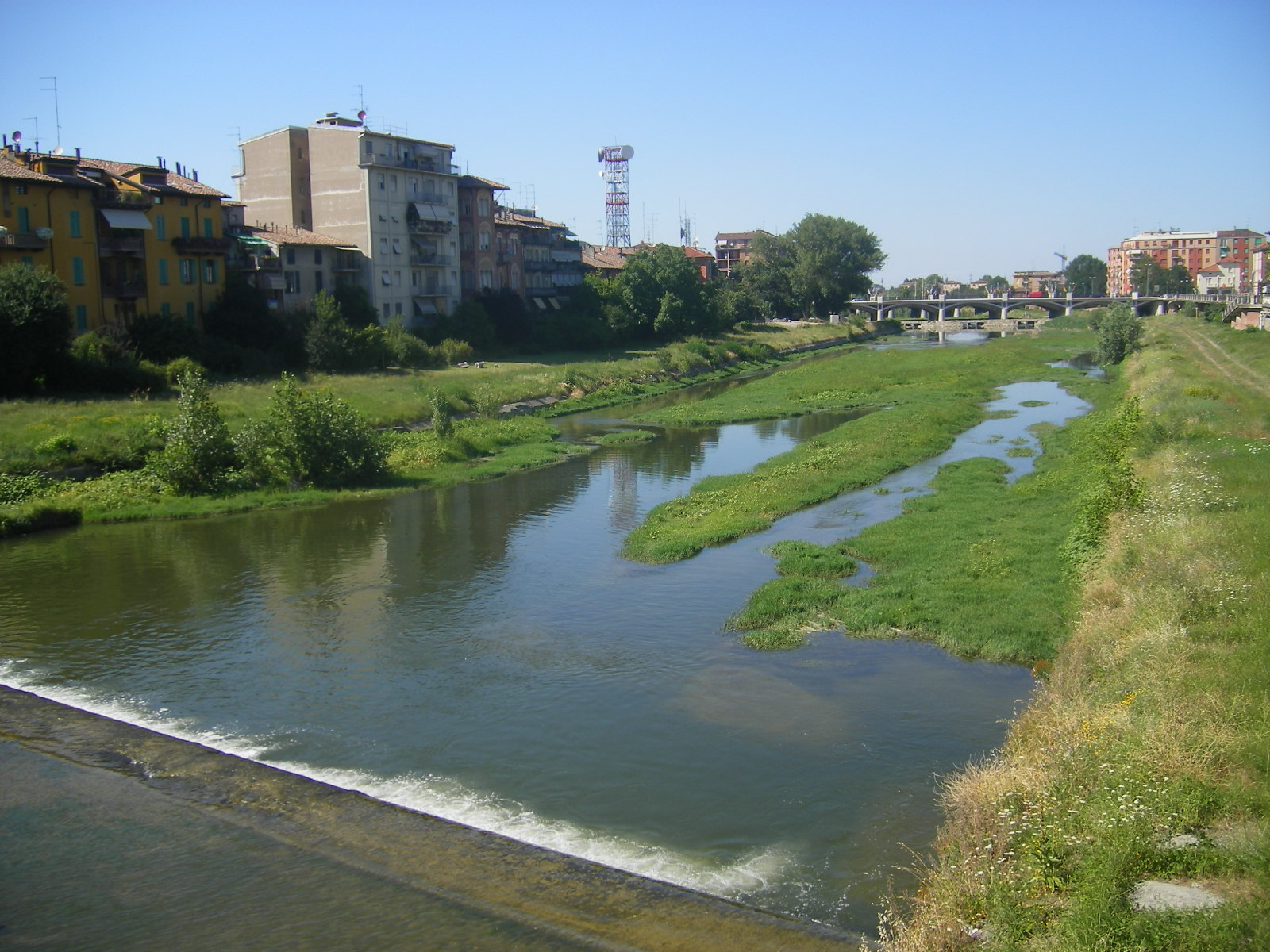 Parma River in Parma